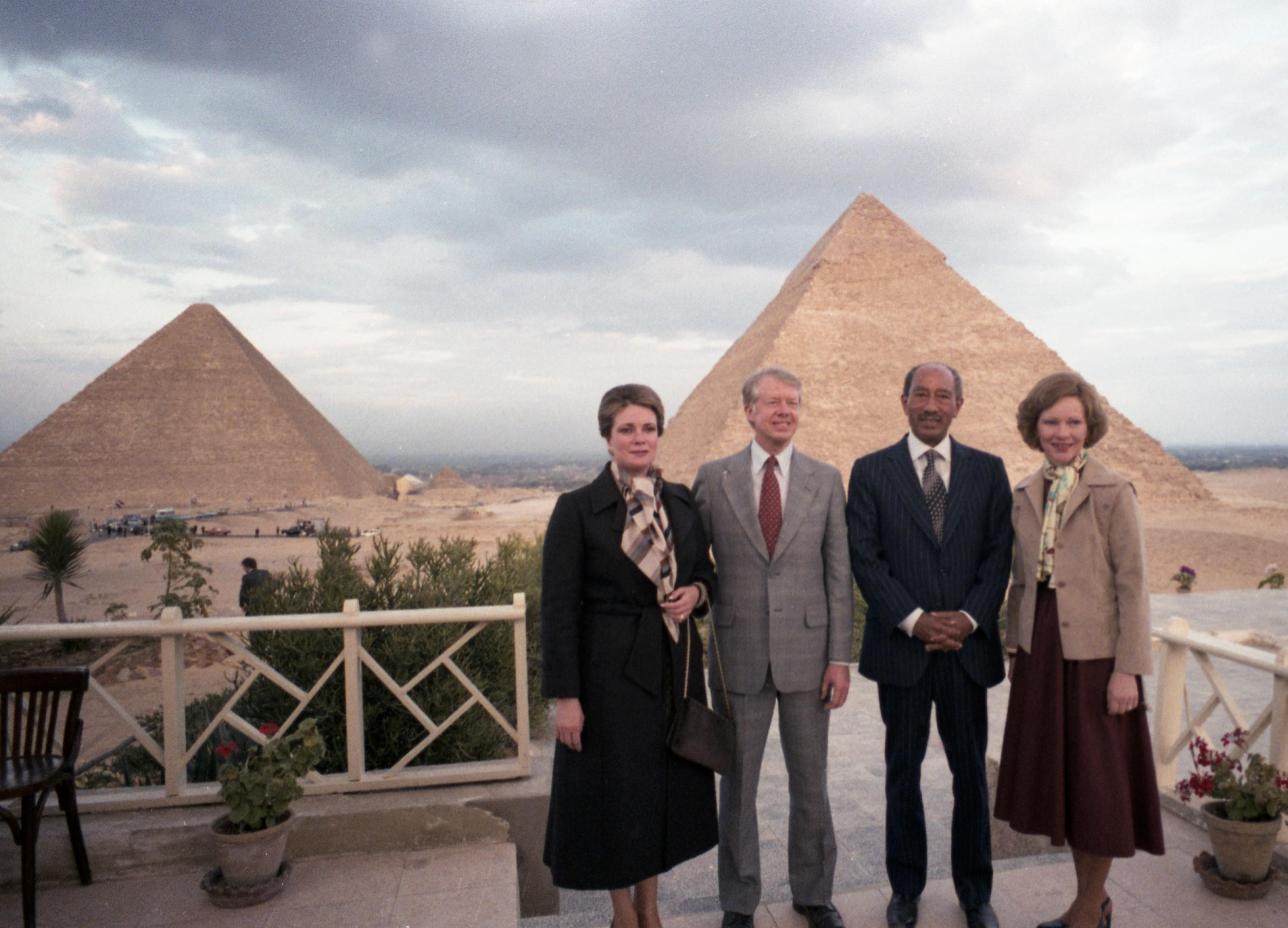 Photo courtesy of Jimmy Carter Library